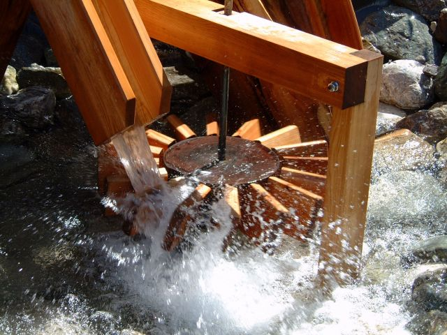 A traditional pebble mill in the Galitzenklamm near Lienz, Austria